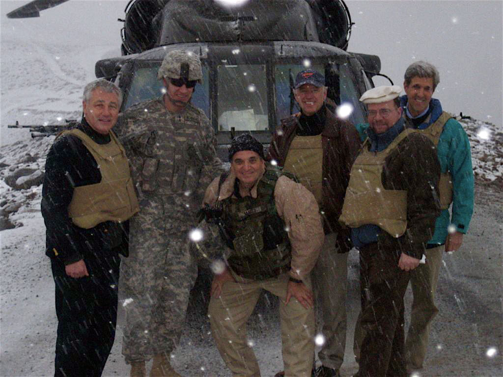 Then-Senators Joe Biden, John Kerry, and Chuck Hagel in Kunar Province in eastern Afghanistan, February 20, 2008. [Photo by John Silson/ Public Domain]